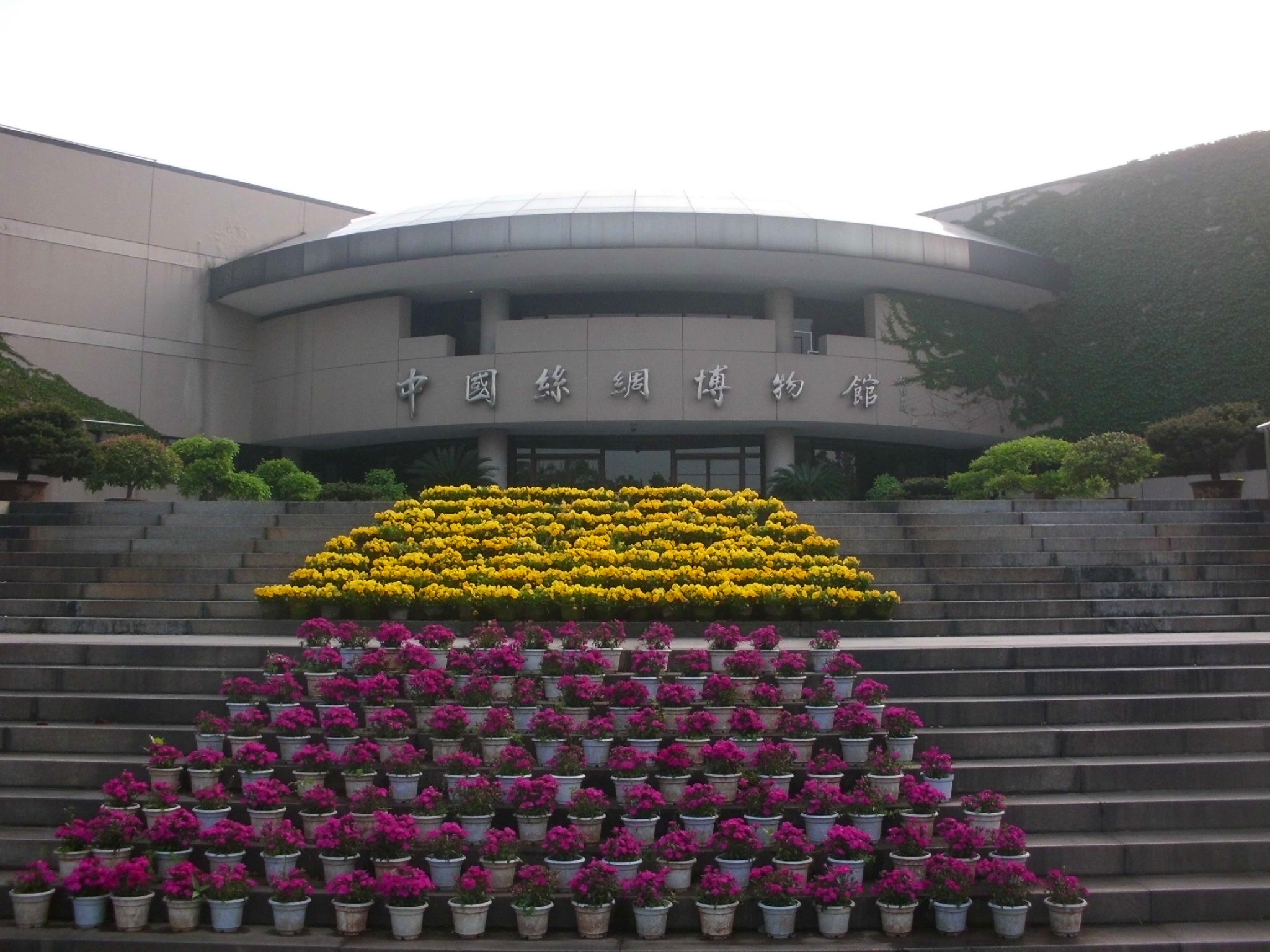 china silk museum